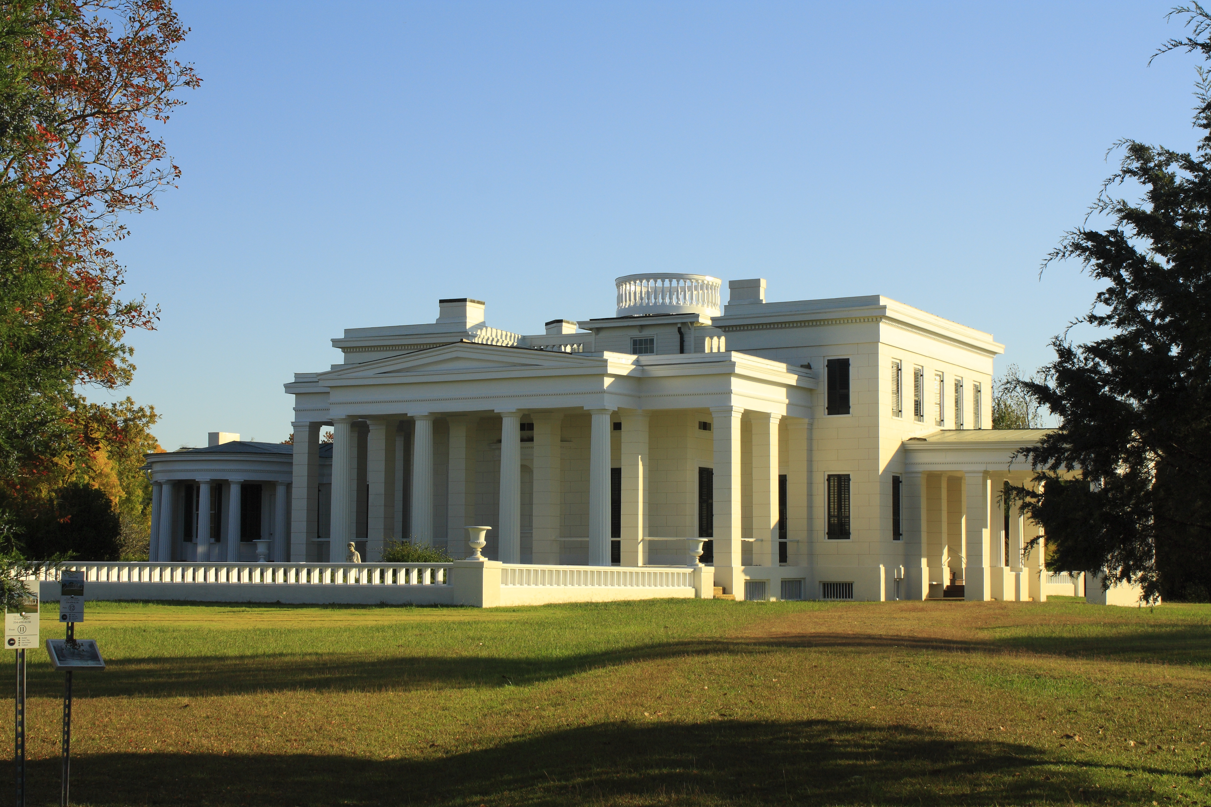 Gaineswood in Demopolis, Alabama. Taken on October 29, 2011, after the exterior restoration to the original colors and scheme was completed.